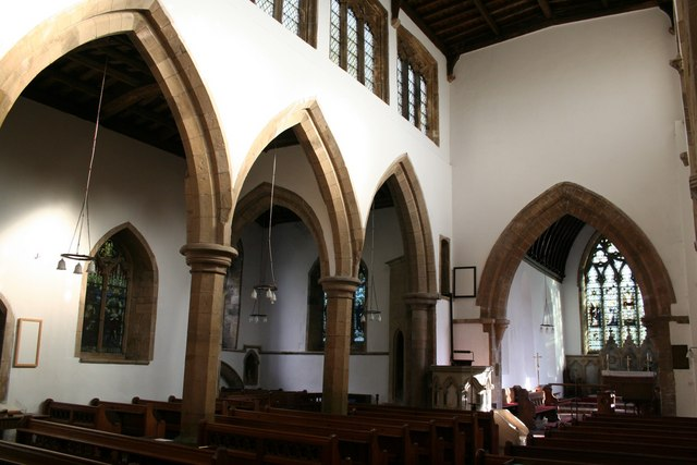 St.Laurence's church nave Three of the four bays of the 14th century north arcade